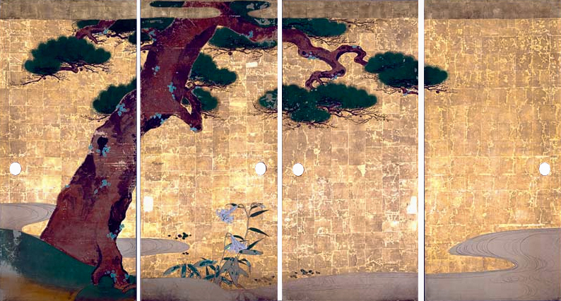 Pine and Lily Fusuma by Watanabe Shiko, from Konbuin Tamaya in Nara City, kept at Kyoto National Museum